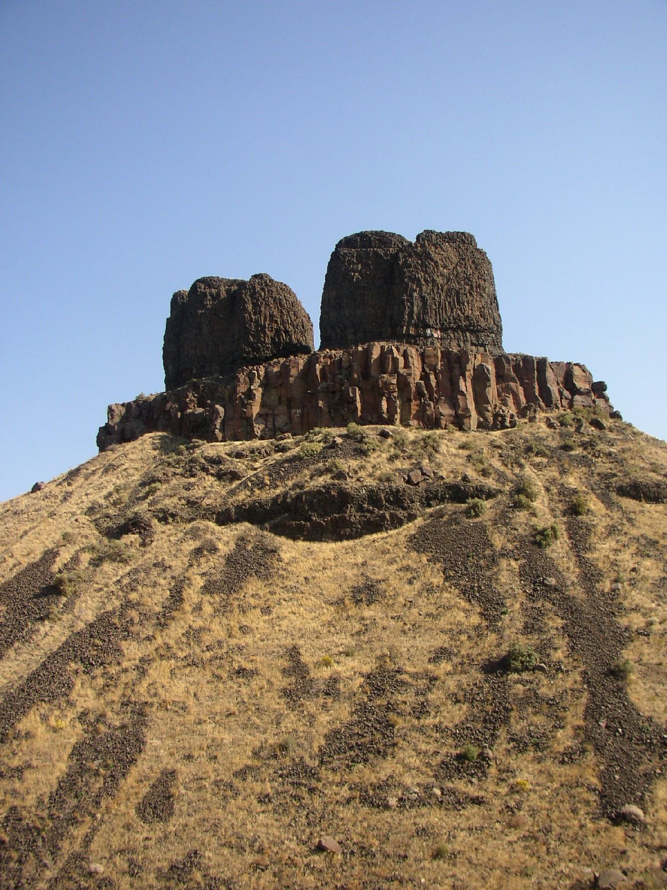 Wallula Gap, Washington state, USA. Twin Sisters: a scab residual of the Missoula Floods on the east bank of the Columbia River in the Wallula Gap. Also known as "Columbia Smoke Stacks" (Horner, 1921, p. 44.)